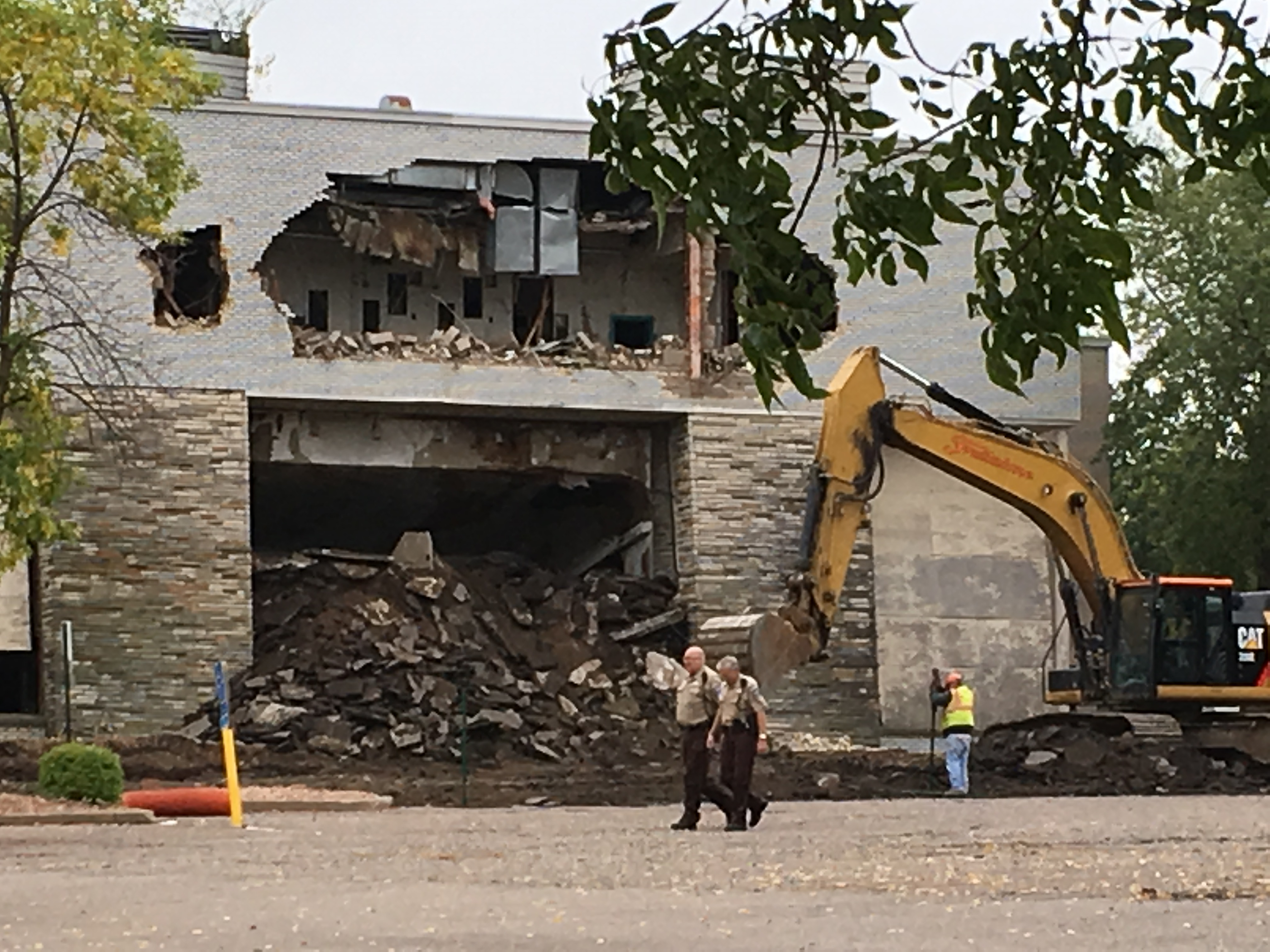 A construction crew began demolition of the theater on Saturday morning, September 24, 2016. After demolition was halted by a judge's order, the heavy equipment operator began deconstructing the parking lot and filling in the hole with the debris.